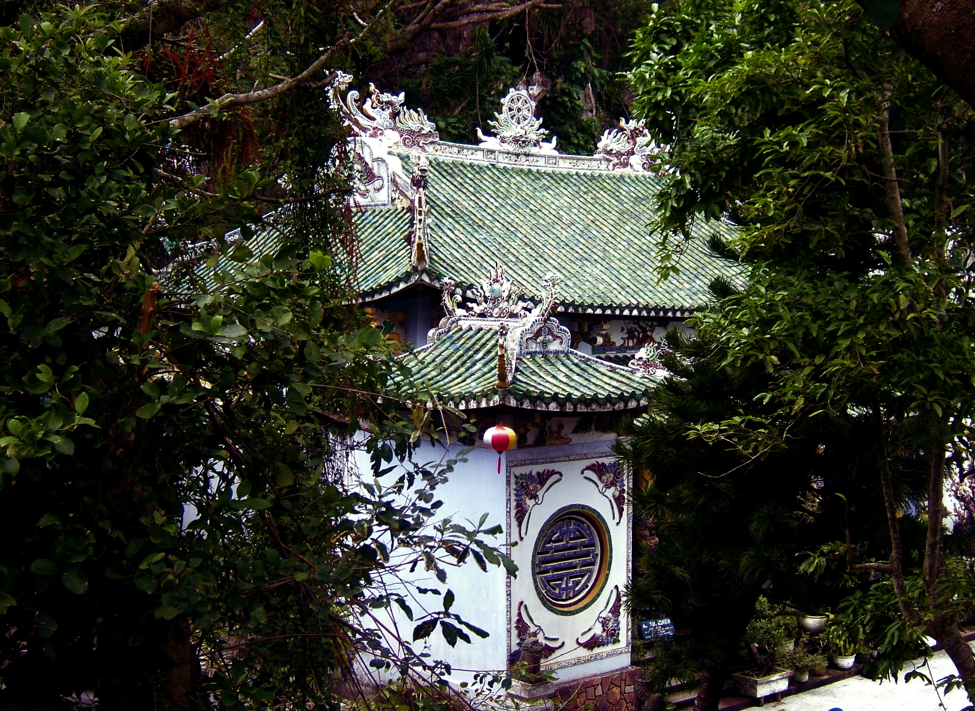 Temple in the Trees, Marble Mountain, Hoi An VN